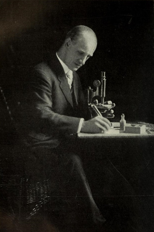 Picture of Richard Clarke Cabot